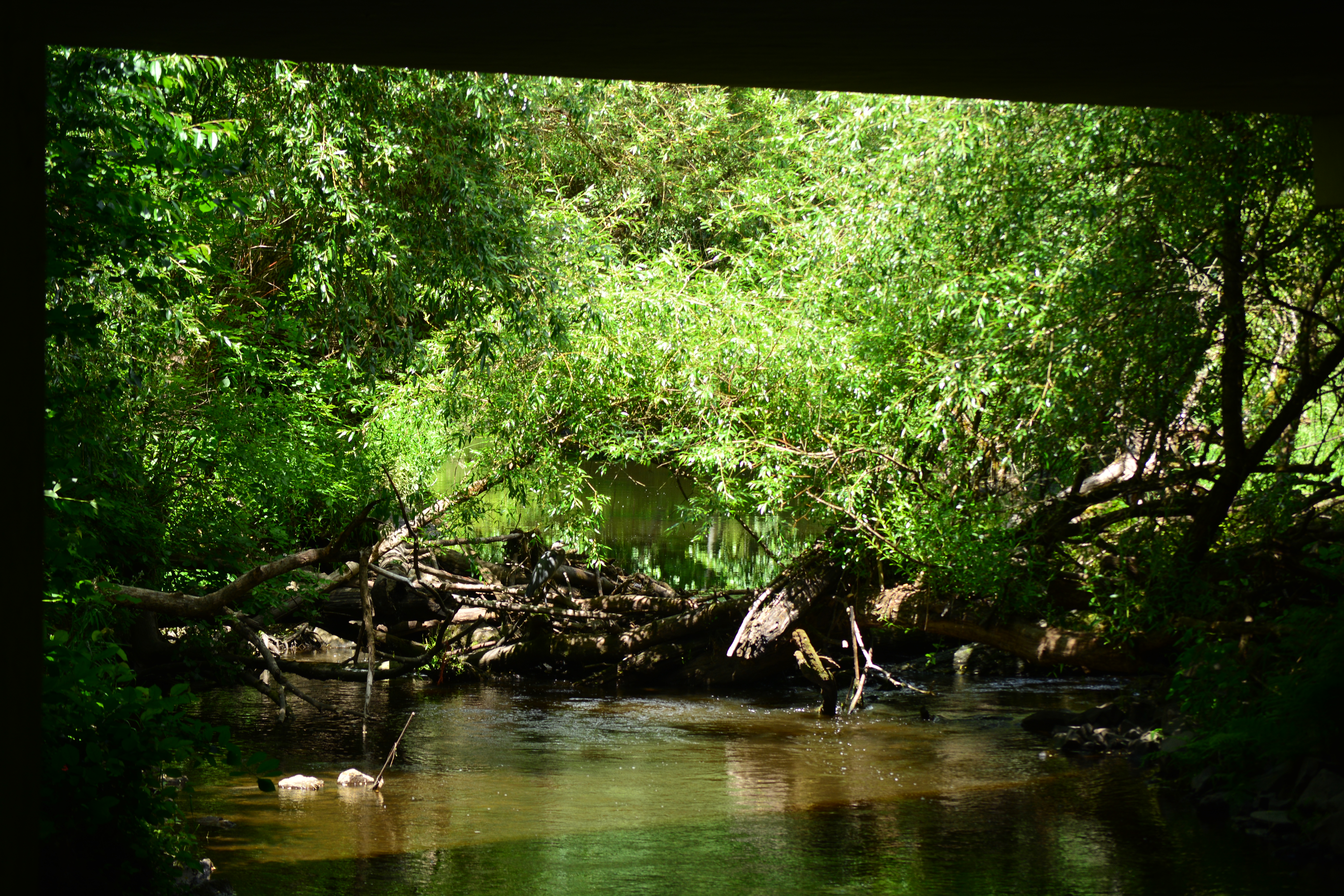 North Creek, Bothell, Washington, U.S., seen from under the Washington State Route 522 bridge across the creek.